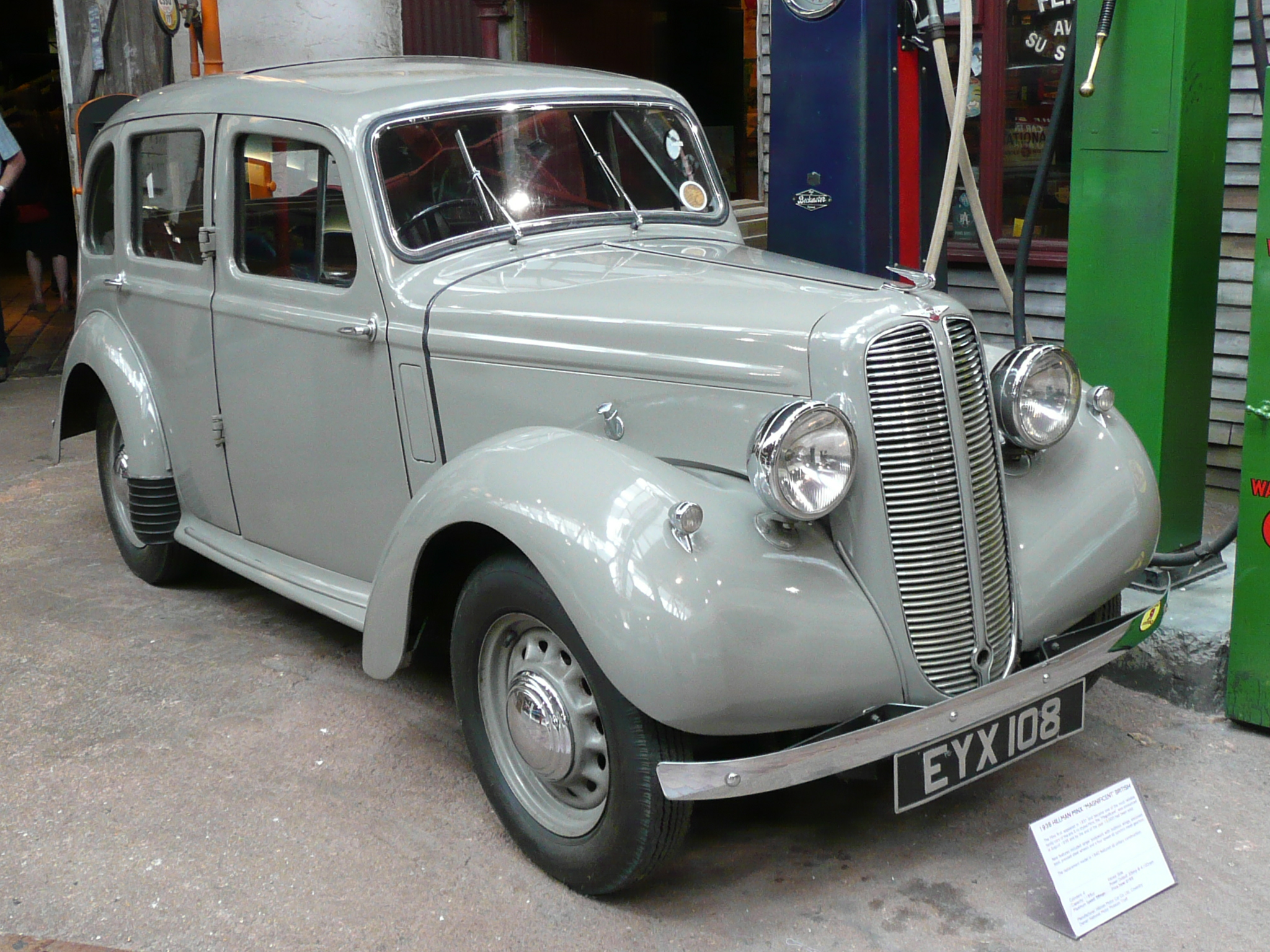 1938 Hillman Minx "Magnificent", National Motor Museum in Beaulieu.